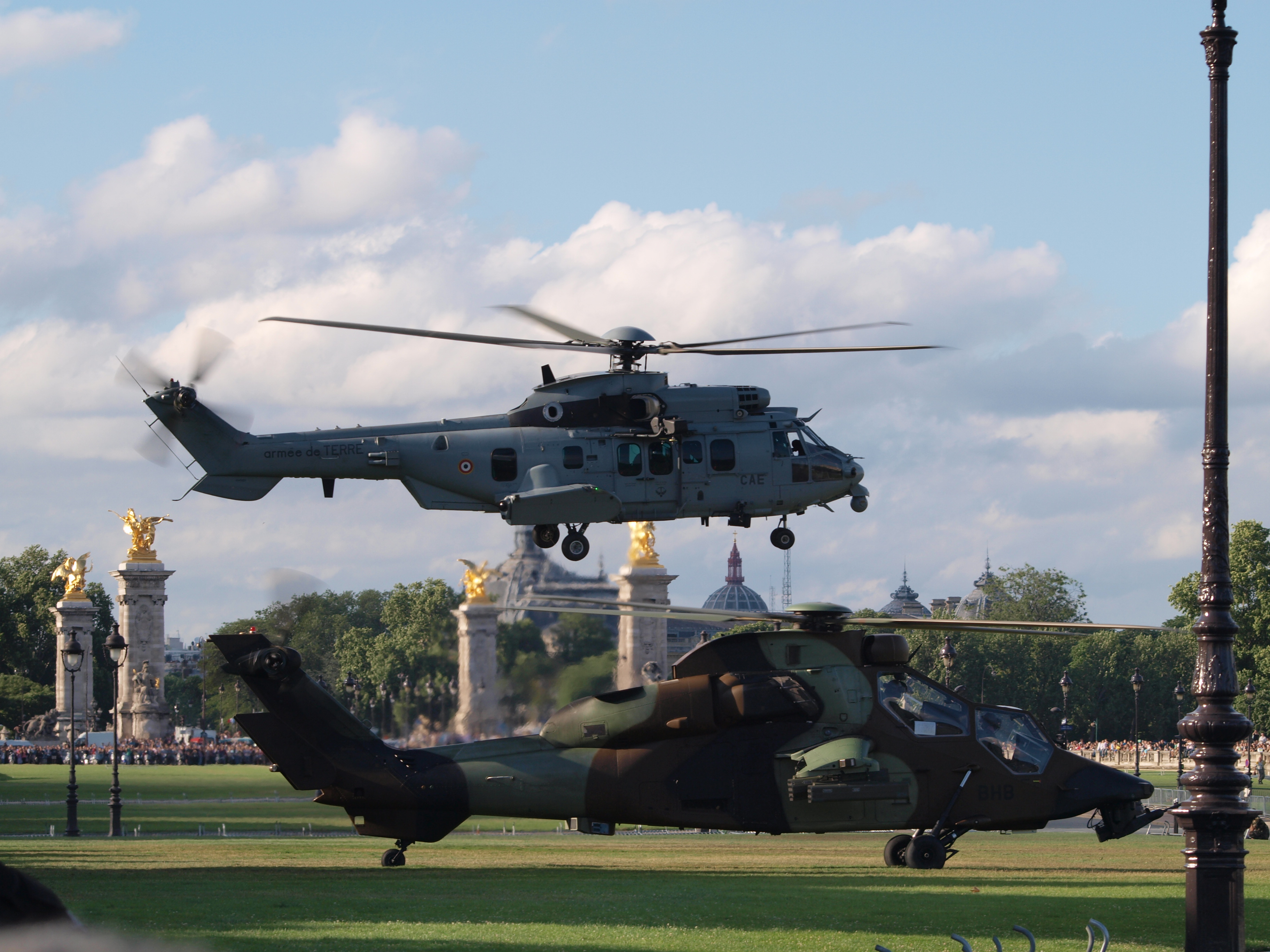 Tigre & EC 725 - CARACAL